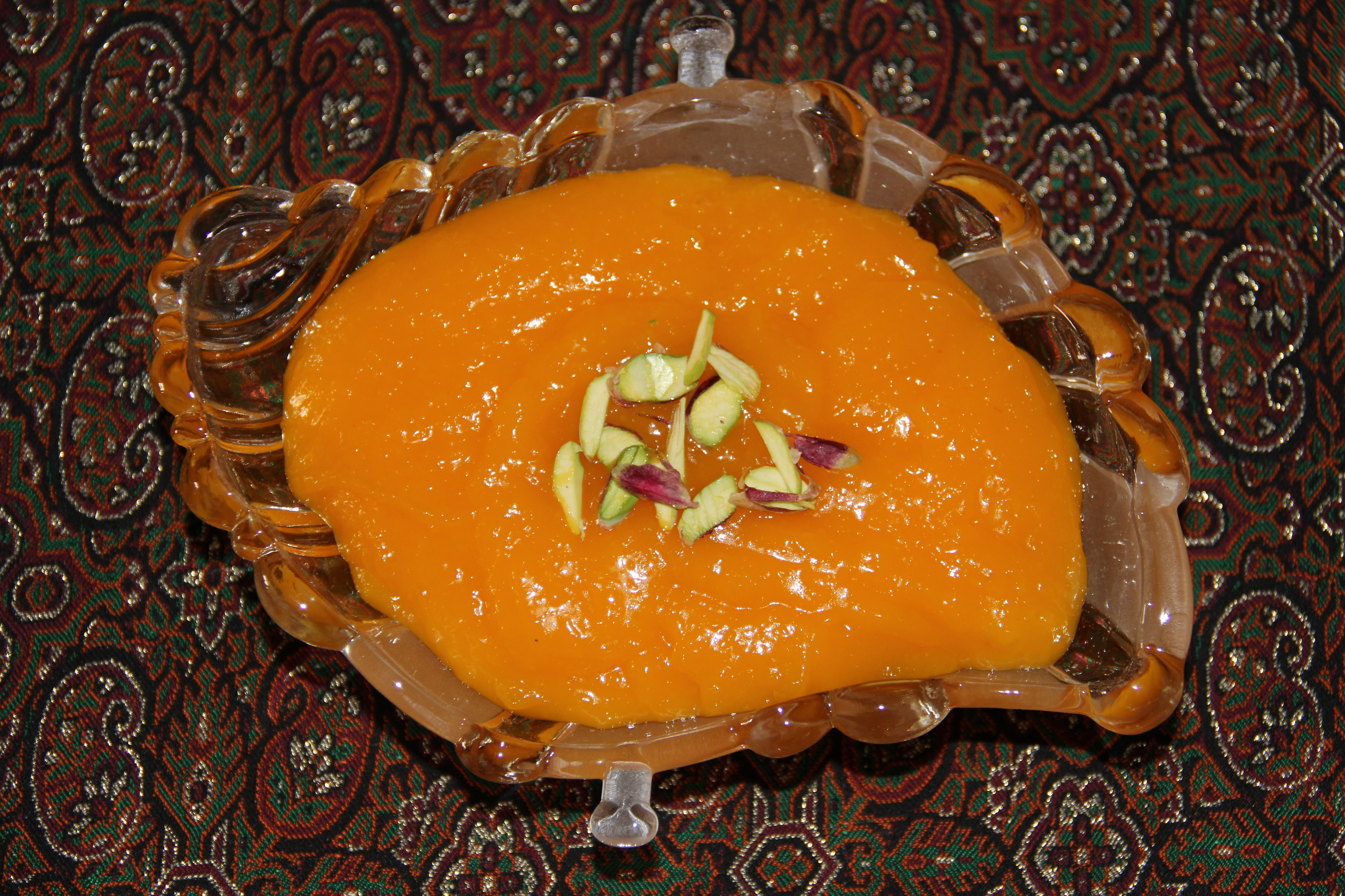 Halva zarde